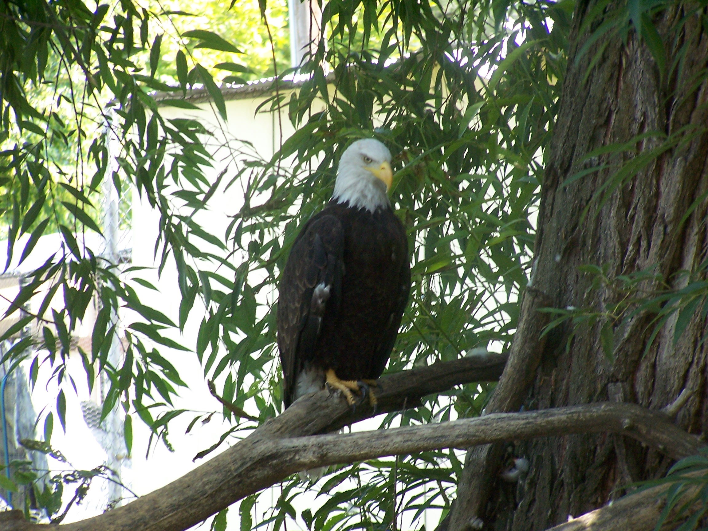 WillPark Zoo,Logan,Utah,US